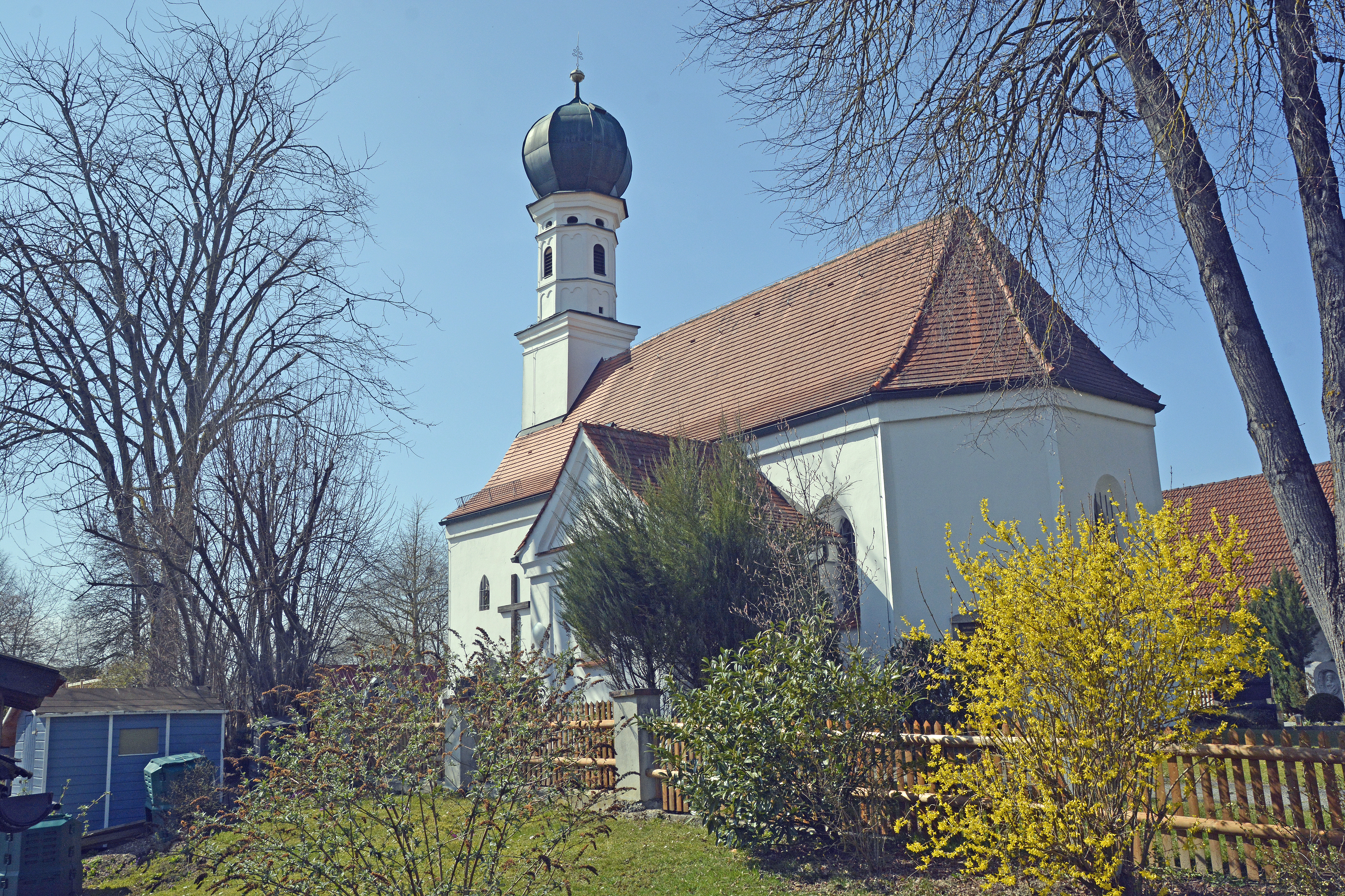 Church St.Georg and Maria, Weichs-Ebersbach